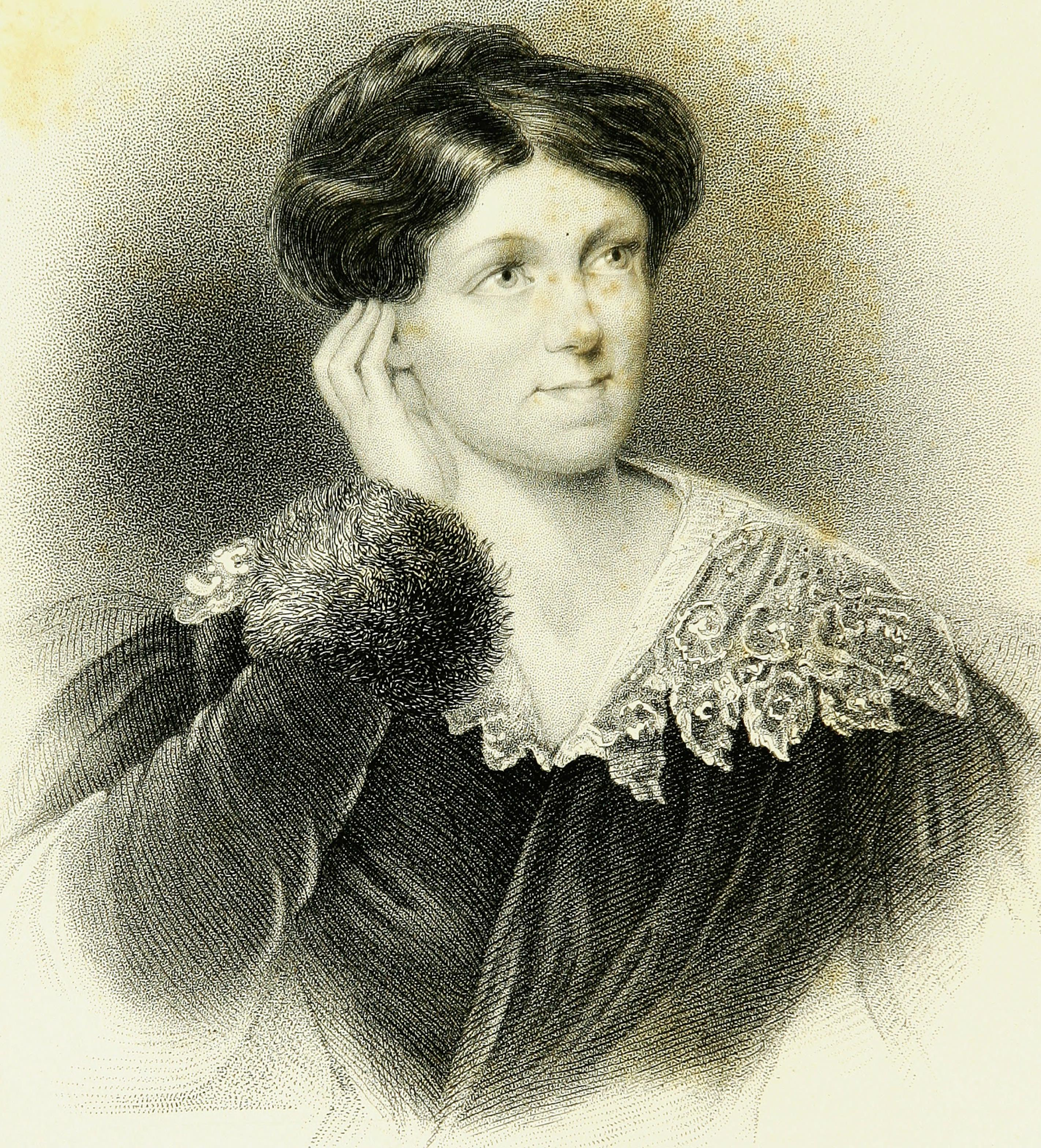 Title: Harriet Martineau's autobiography .. Year: 1879 (1870s) Authors: Martineau, Harriet, 1802-1876 Chapman, Maria Weston, 1806-1885 St. John, Cynthia Morgan, 1852-1919. fmo Wordsworth Collection Subjects: Martineau, Harriet, 1802-1876 Authors, English Social reformers Publisher: Boston, Houghton, Osgood and Co. Text Appearing Before Image: lth. I did heara better account of it: but I fear from what you say that you haveno inmiediate prospect of returning strength. Believe me, dear Miss Martineau, Very truly yours, CHAPtLES BULLEPt, Junr. END OF VOL. I. Cambridge : Electrotyped and Printed by Welch, Bigelow, & Co. i Text Appearing After Image: '